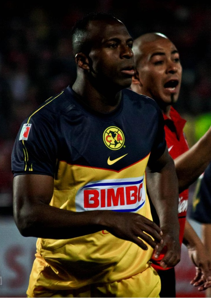 America player Christian Benitez